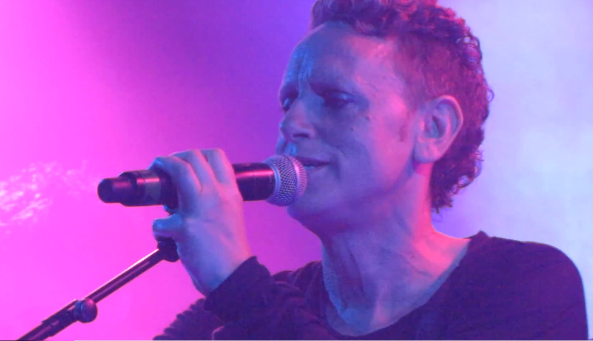 Depeche Mode live at Troubadour - April 26th, 2013